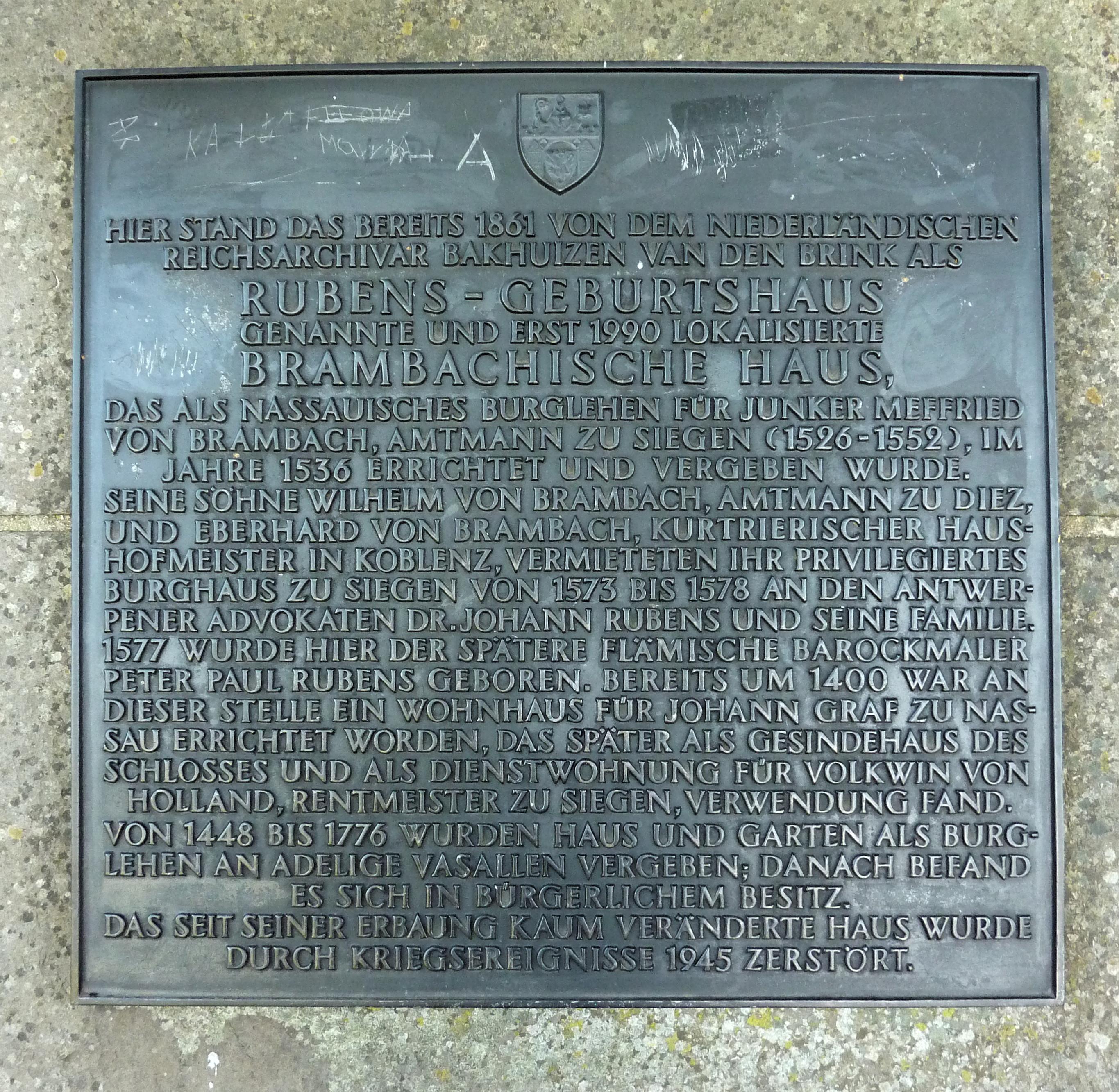 Memorial plaque at the birthplace of Peter Paul Rubens, Siegen, Germany, Burgstraße 10–14; original building destroyed in 1945 (last weeks of WW II).